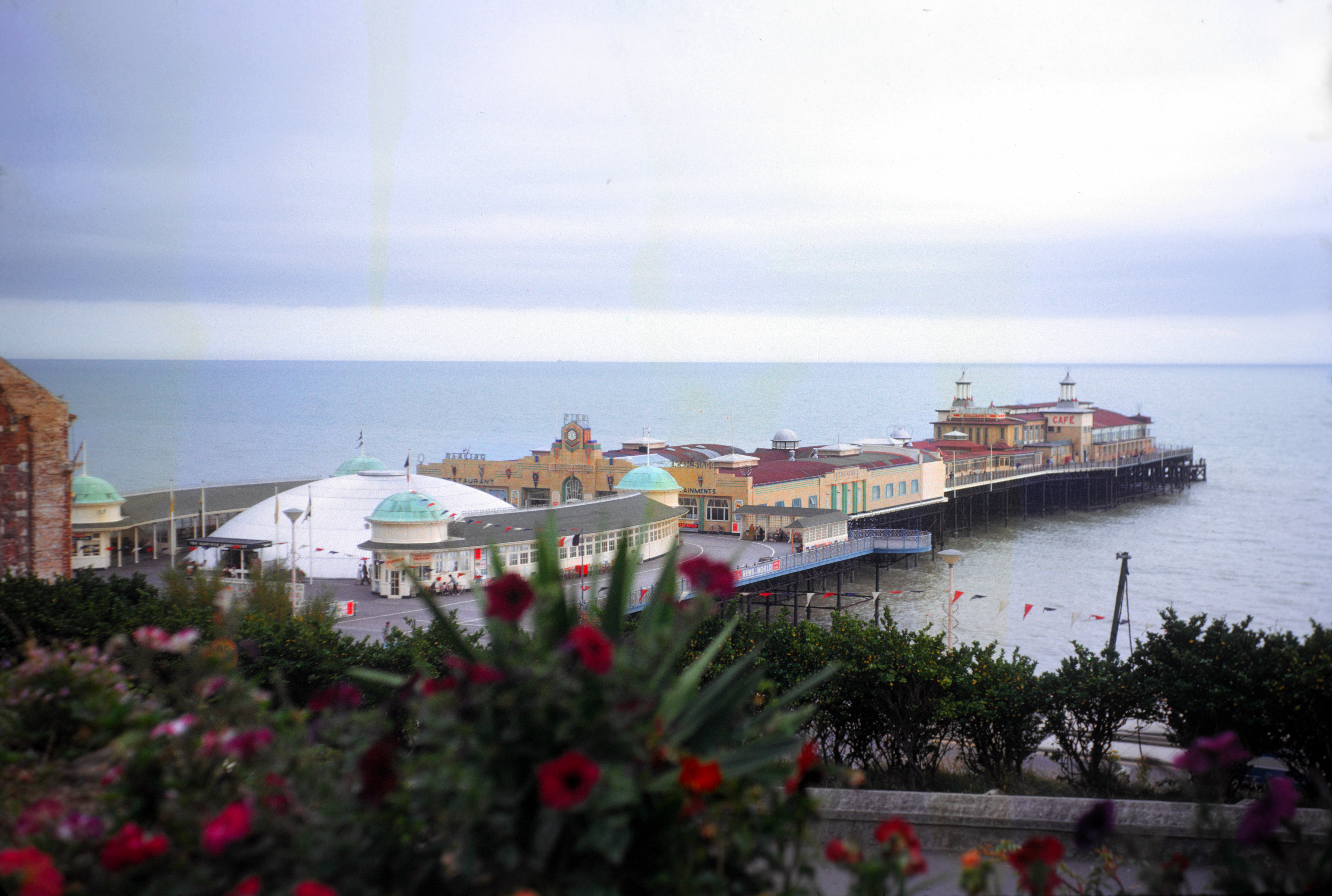 The Hastings Embroidery displayed in a white domed structure on the old Hastings Pier for the centenary celebration of the Battle of Hastings, August 1966.